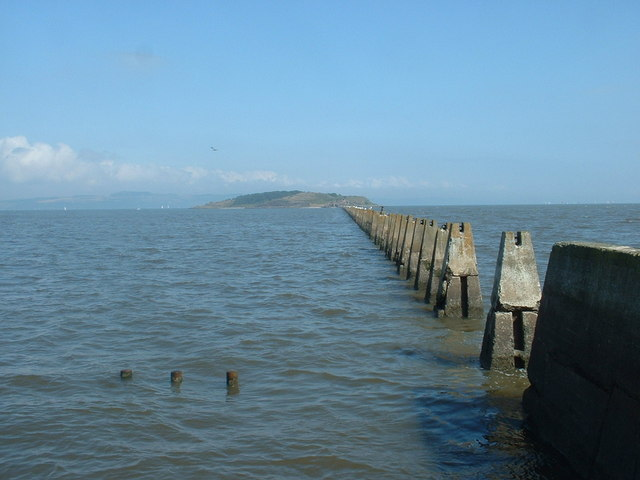 The Causeway line at high tide. This was a neap tide, so no doubt a spring tide would be a couple of metres higher. There is an amazing contrast between this view and the low tide expanse of mud and shingle - see Bob Jones' photo posted for NT1877.